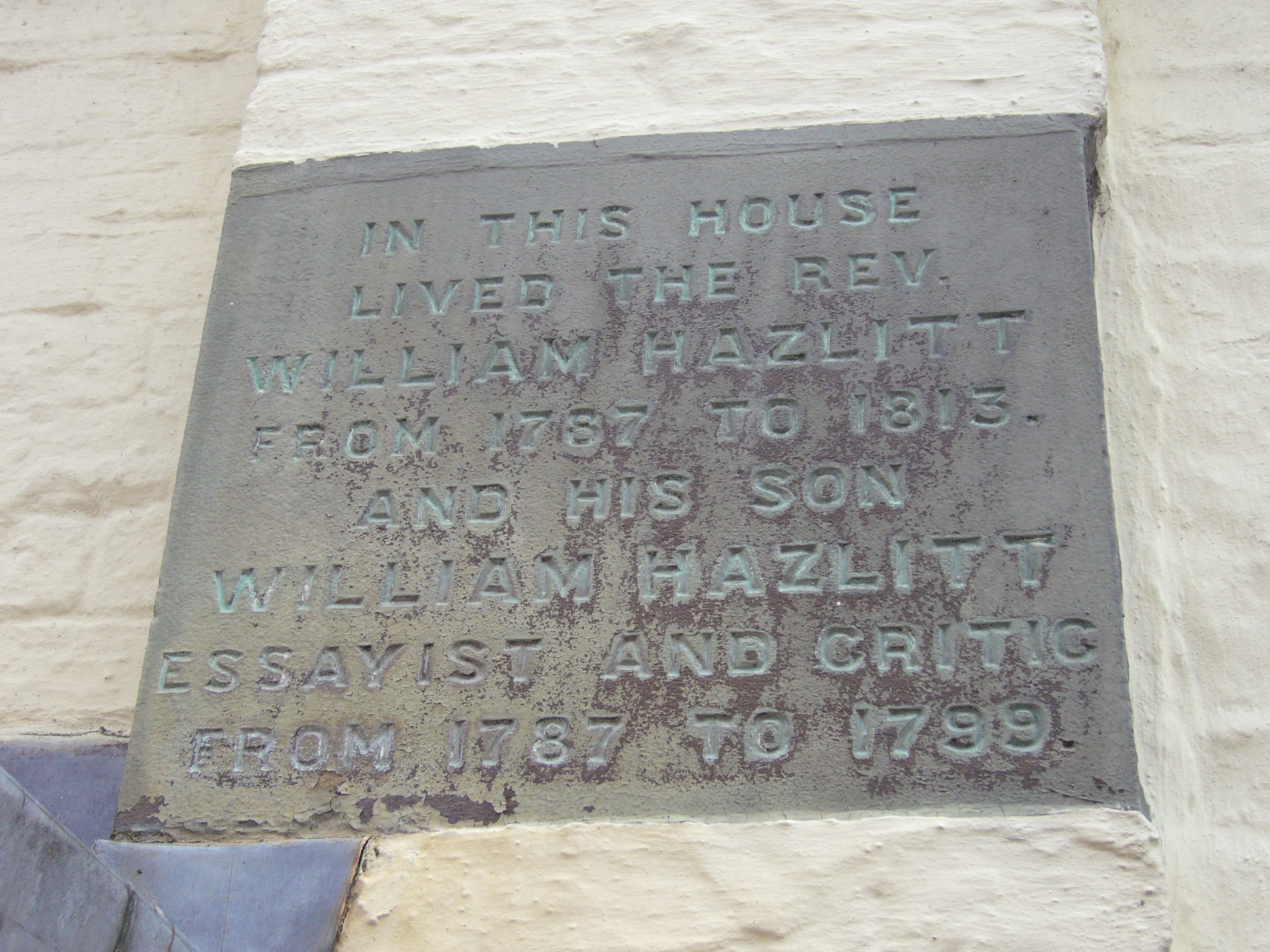 Stone plaque above front door of the former home of William Hazlitt in Wem, Shropshire, UK. Inscription reads: "In this house lived the Rev. William Hazlitt from 1787 to 1813. And his son William Hazlitt essayist and critic from 1787 to 1799"